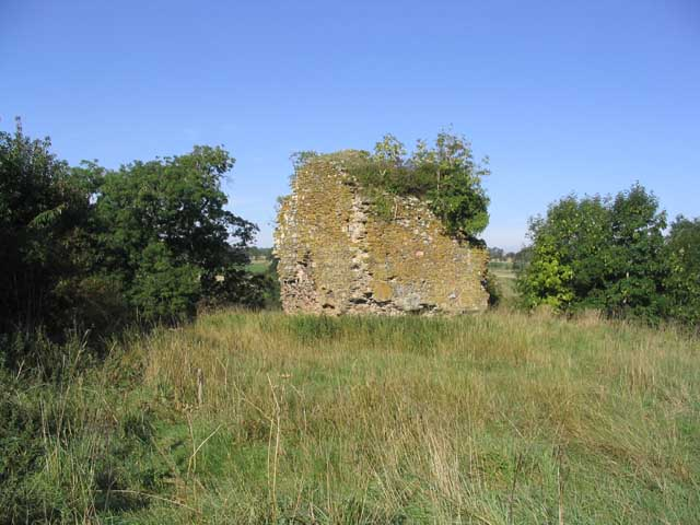 The remains of Whitslaid Tower near the Leader Water